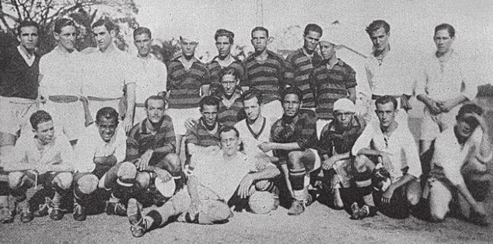 First match between EC Vitória and EC Bahia, in 1932.